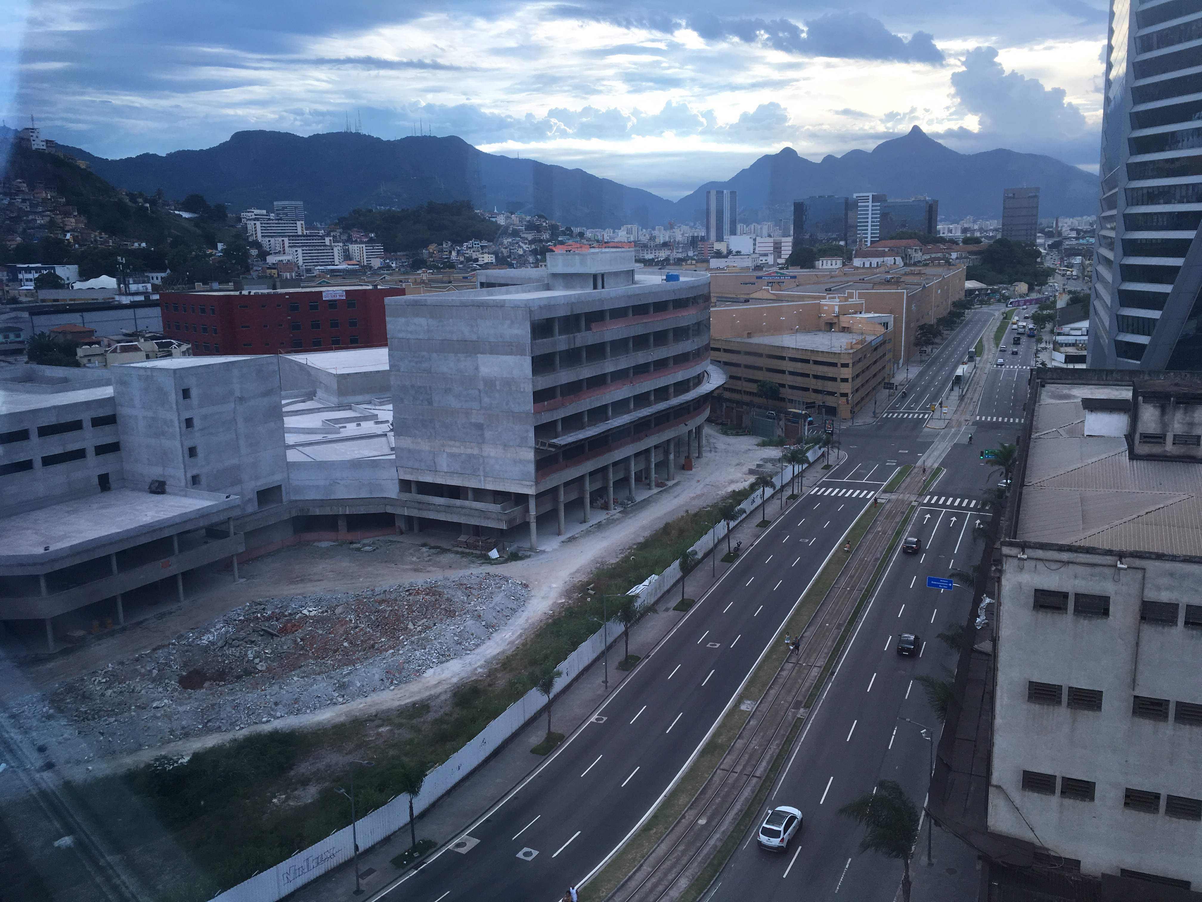 The view of Binário do Porto street from the he ferris wheel Rio Star.